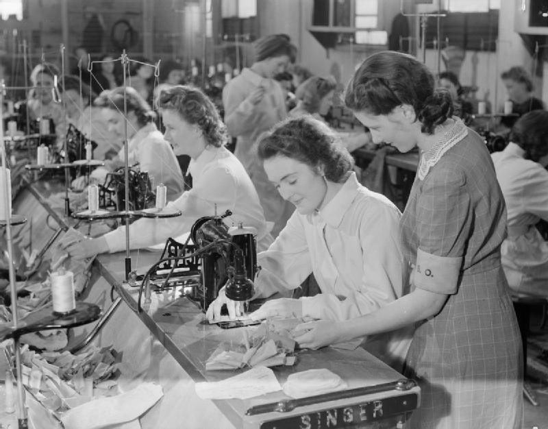 Workers Welfare at a Royal Ordnance Factory- Life at Rof Bridgend, January 1942 War workers sew cordite bags in the sewing room of Royal Ordnance Factory, Bridgend.